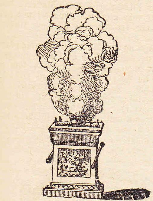 the Altar of incence